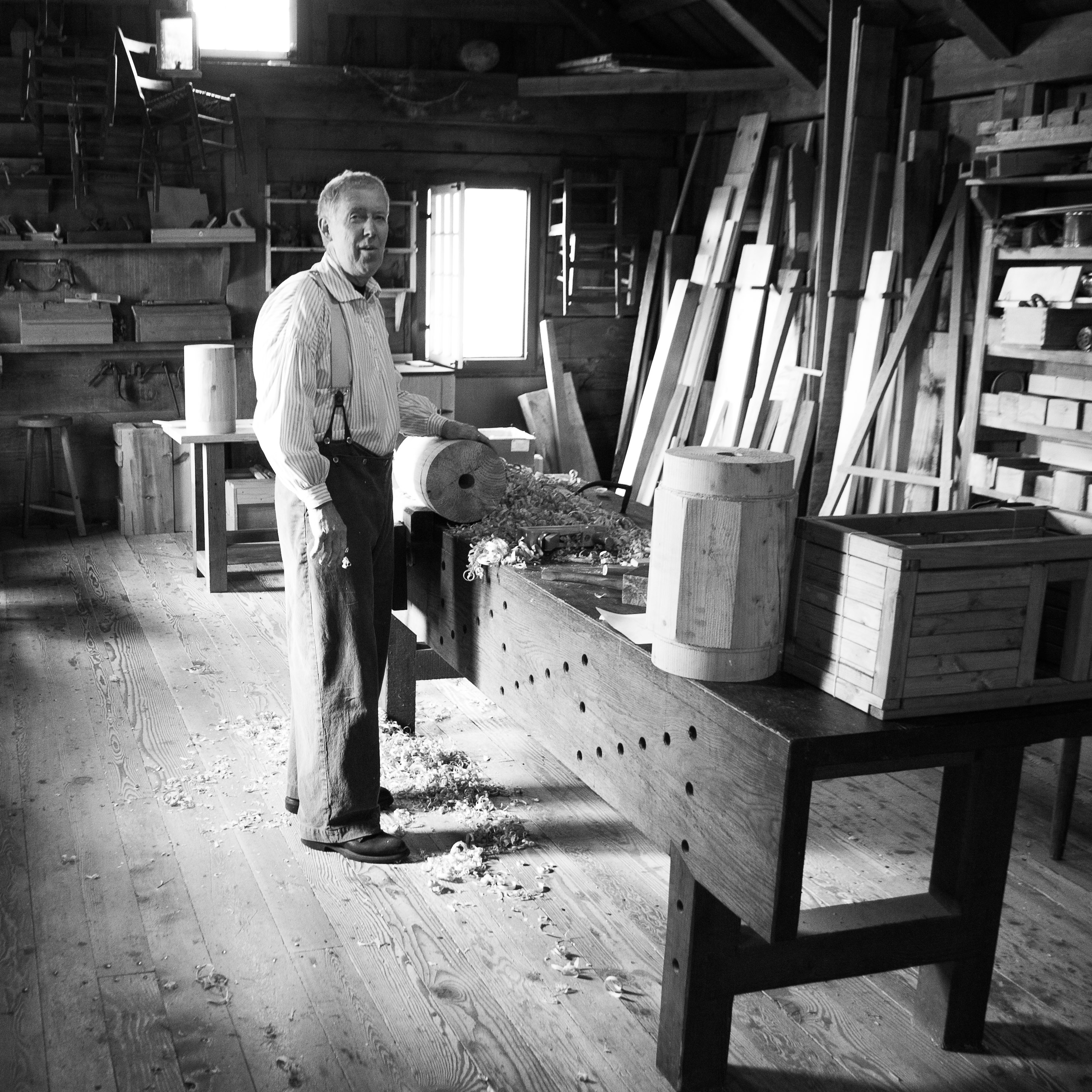 The Fort Vancouver National Historic Site in Vancouver, Washington